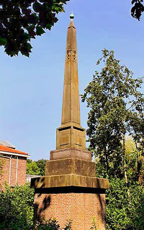 banpaal amstelveen amsterdamseweg